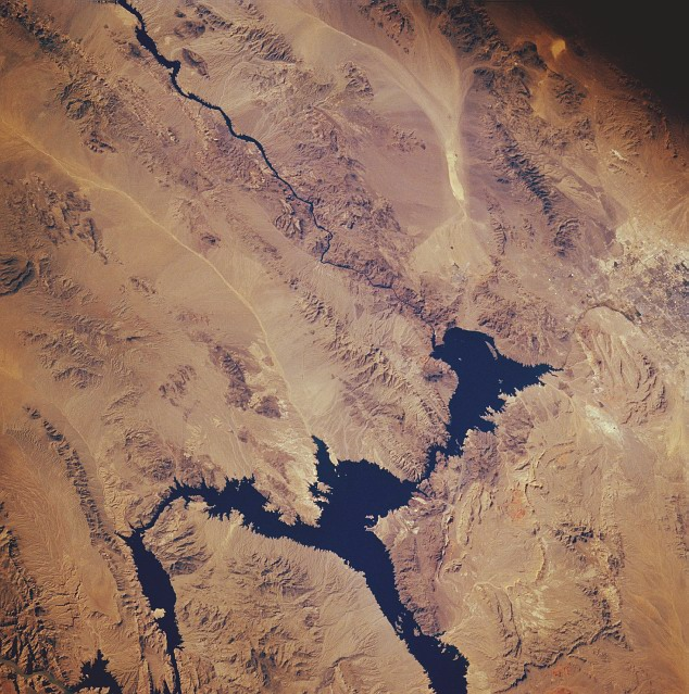 Lake Mead, Arizona, United States - November 1985. (View southwestwards). Shows Clark County, Nevada (Las Vegas), and Mohave County, Arizona.